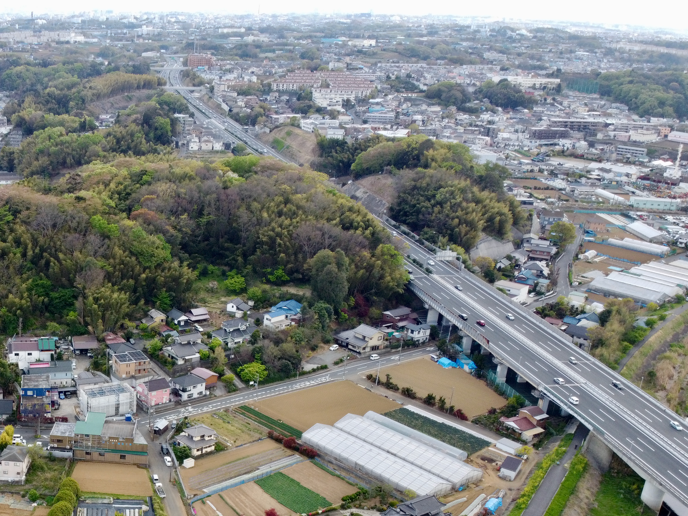 Aerial view of R466 going through Kozukue Castle